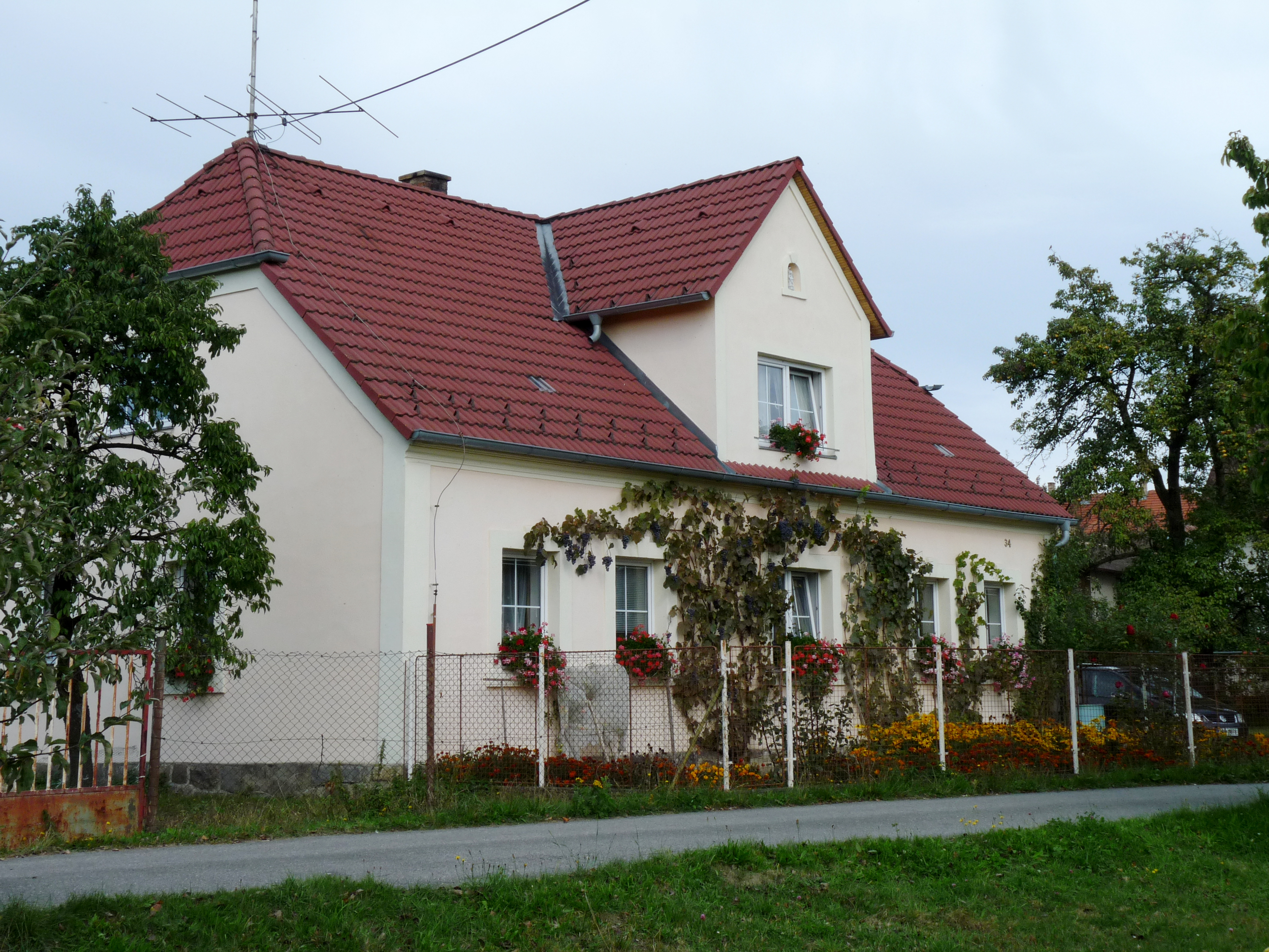 House No 34 in the village of Rozpoutí, Český Krumlov District, South Bohemian Region, Czech Republic.